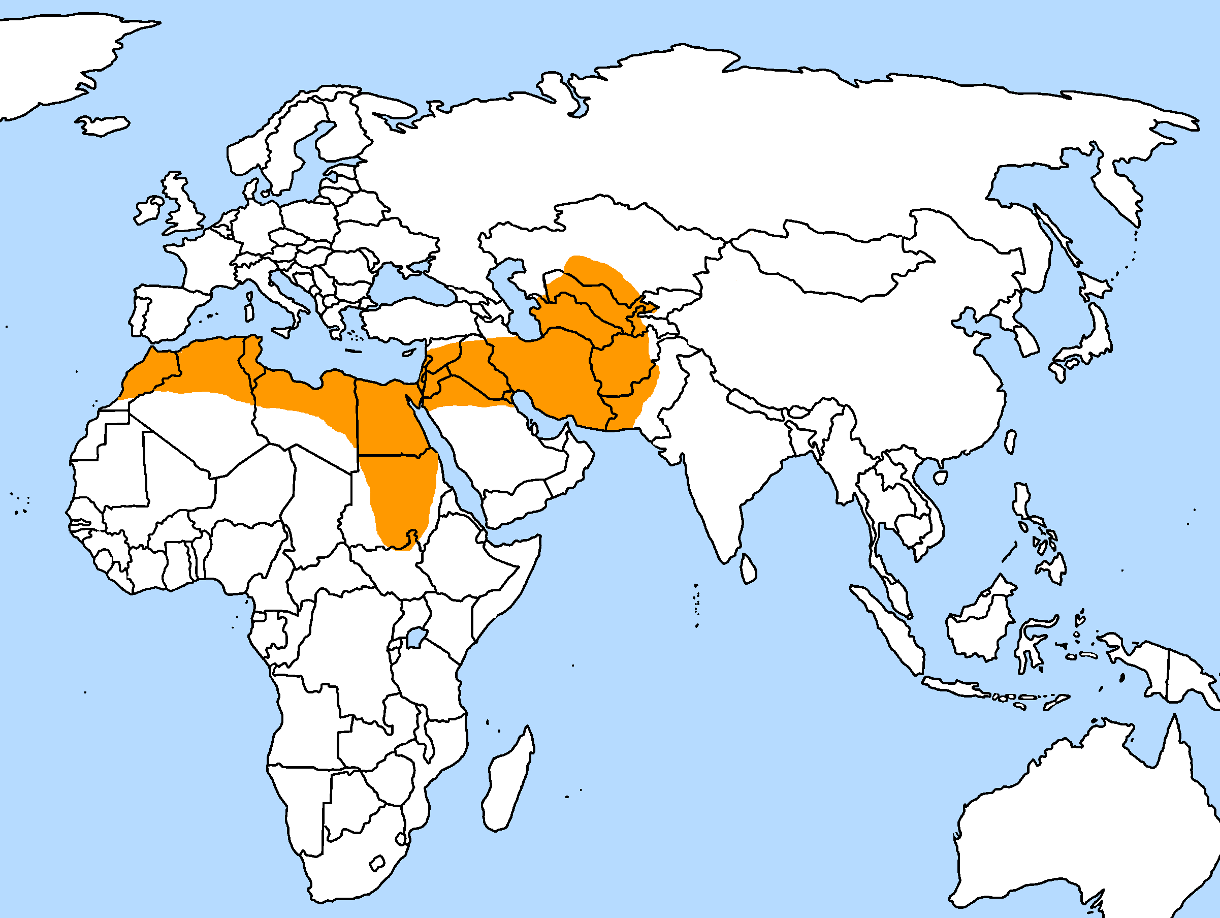 Destridution map of Egyptian Nightjar (Caprimulgus aegyptius)